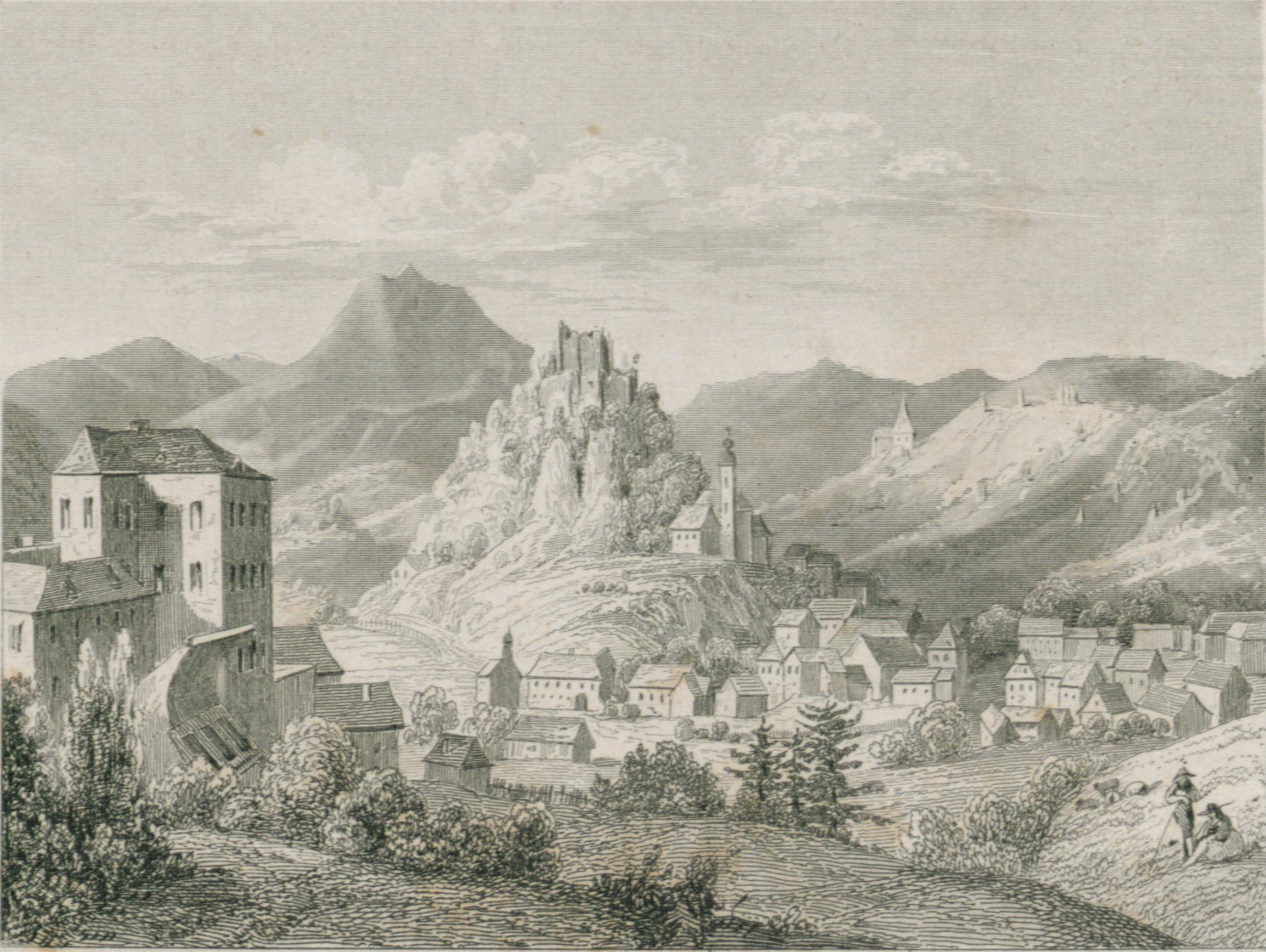 Grad Rogatec (Rohitsch) on a 19th century carving.